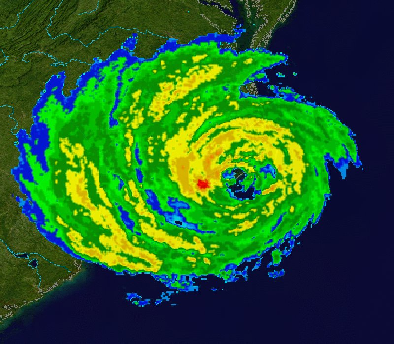 This image shows Hurricane Isabel at 16:59 p.m. EDT on September 18, 2003, as it was making its landfall in North Carolina as a Category 2 Hurricane. The radar data is from the NWS NEXRAD radar at Morehead City. The background is true colour imagery derived from NASA's MODIS satellites.